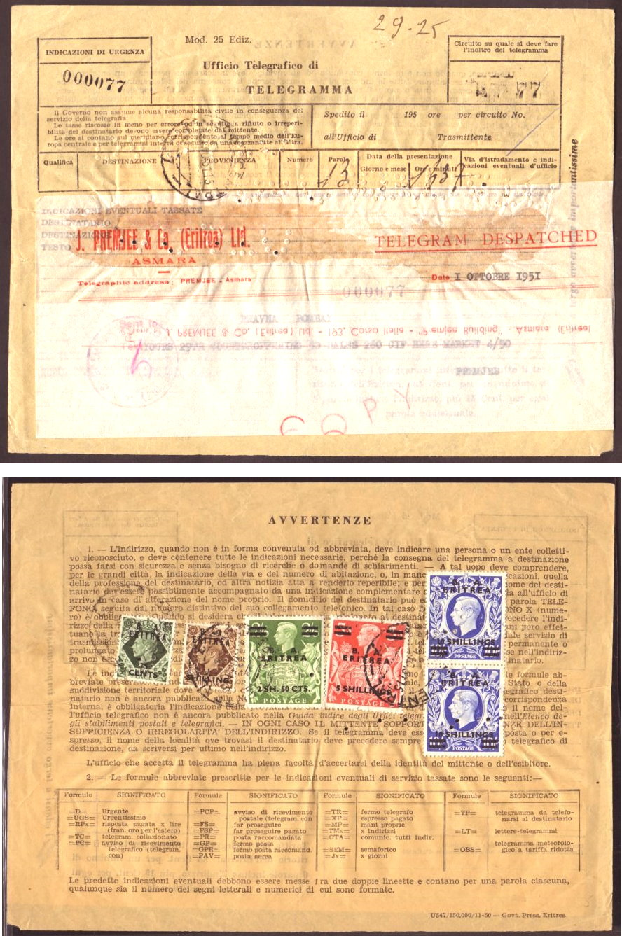 1 October 1951 Eritrea telegram, both sides.